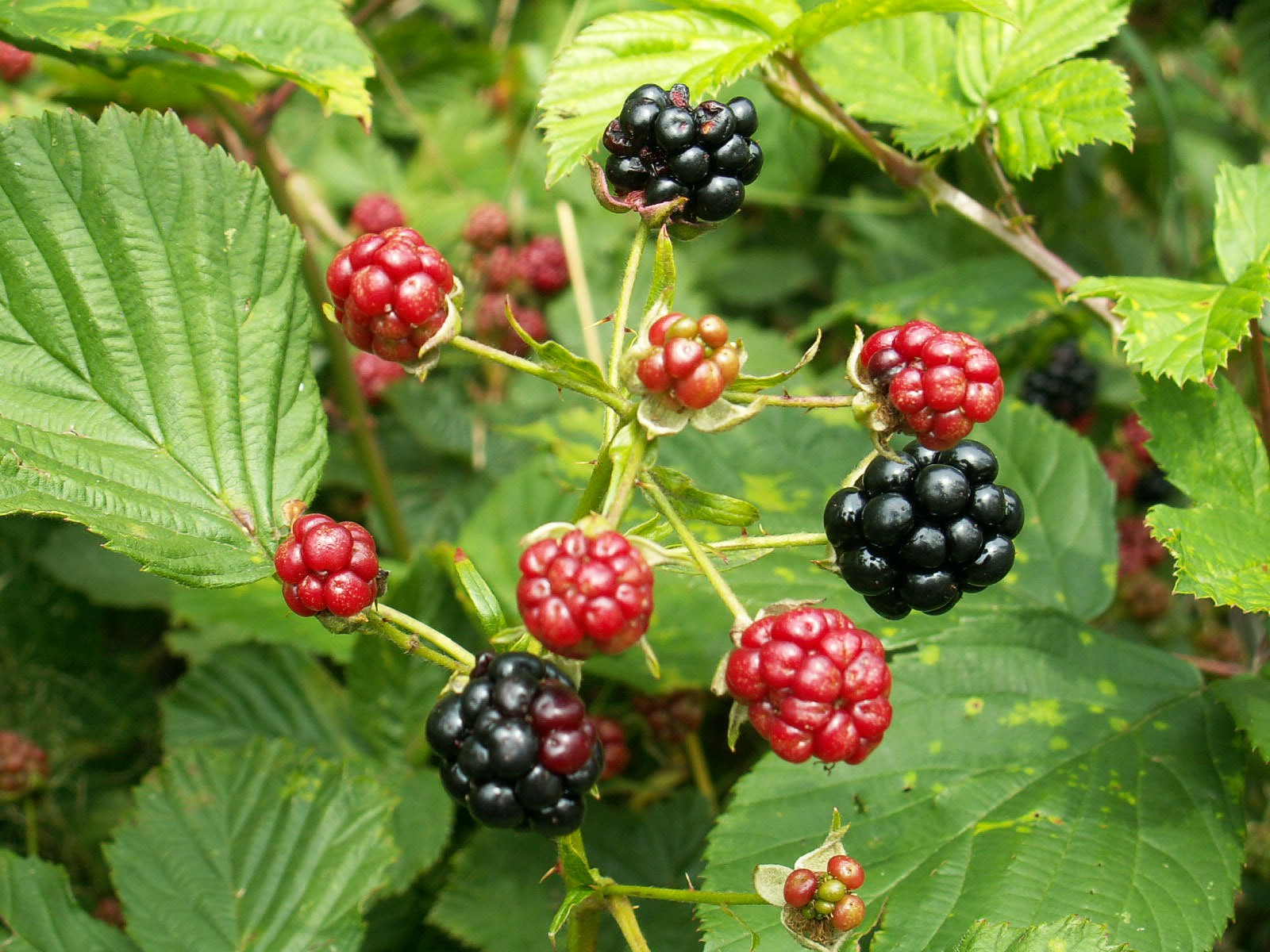 Fruit of Rubus plicatus. Goleniow, NW Poland